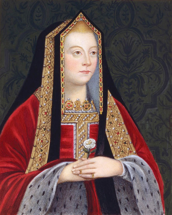 Portrait of Elizabeth of York Holding The White Rose of York